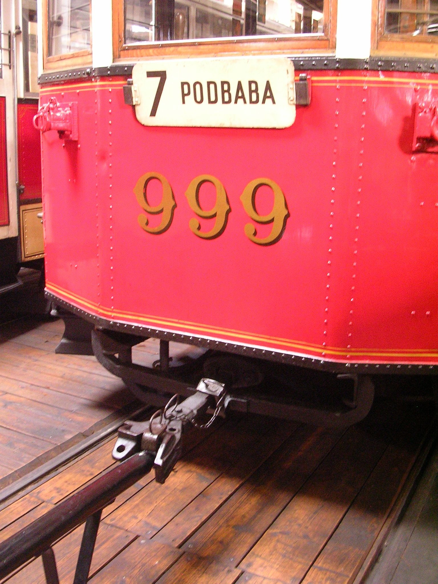 Střešovice, Prague, the Czech Republic. Střešovice tram depot and transport museum. A historical tram in Prague.